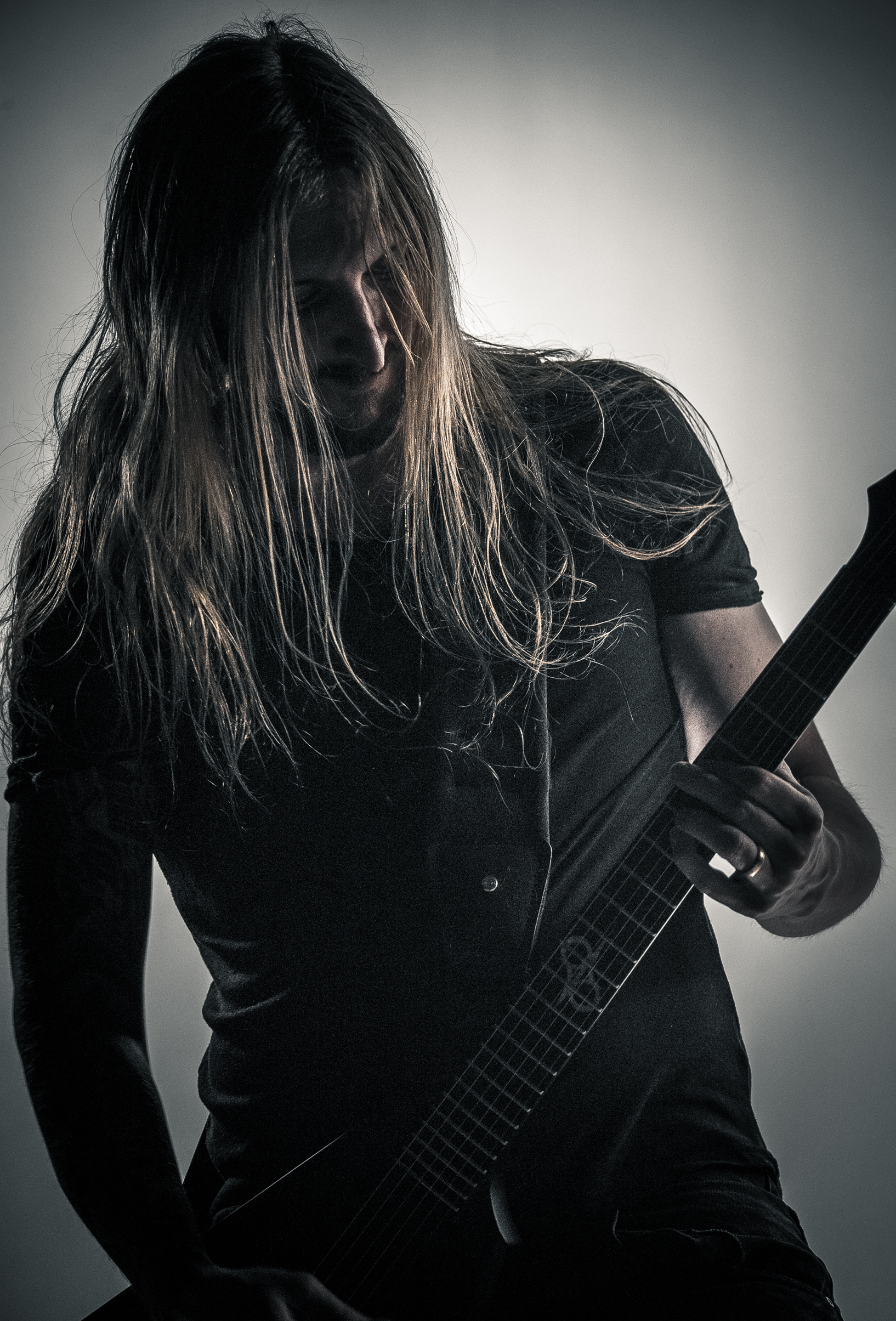 Musicvideo recording session for swedish metal band The Haunted